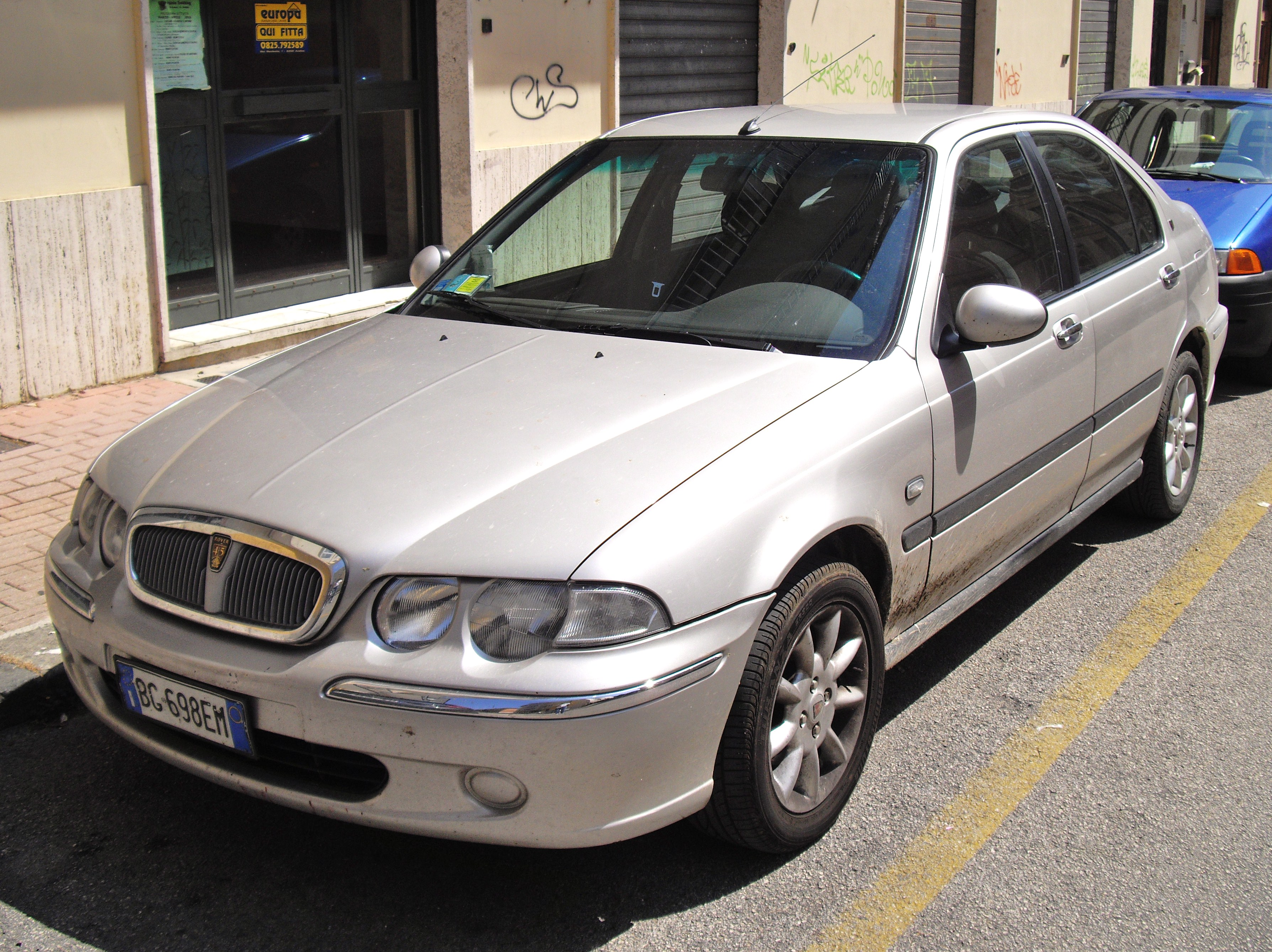 Rover 45